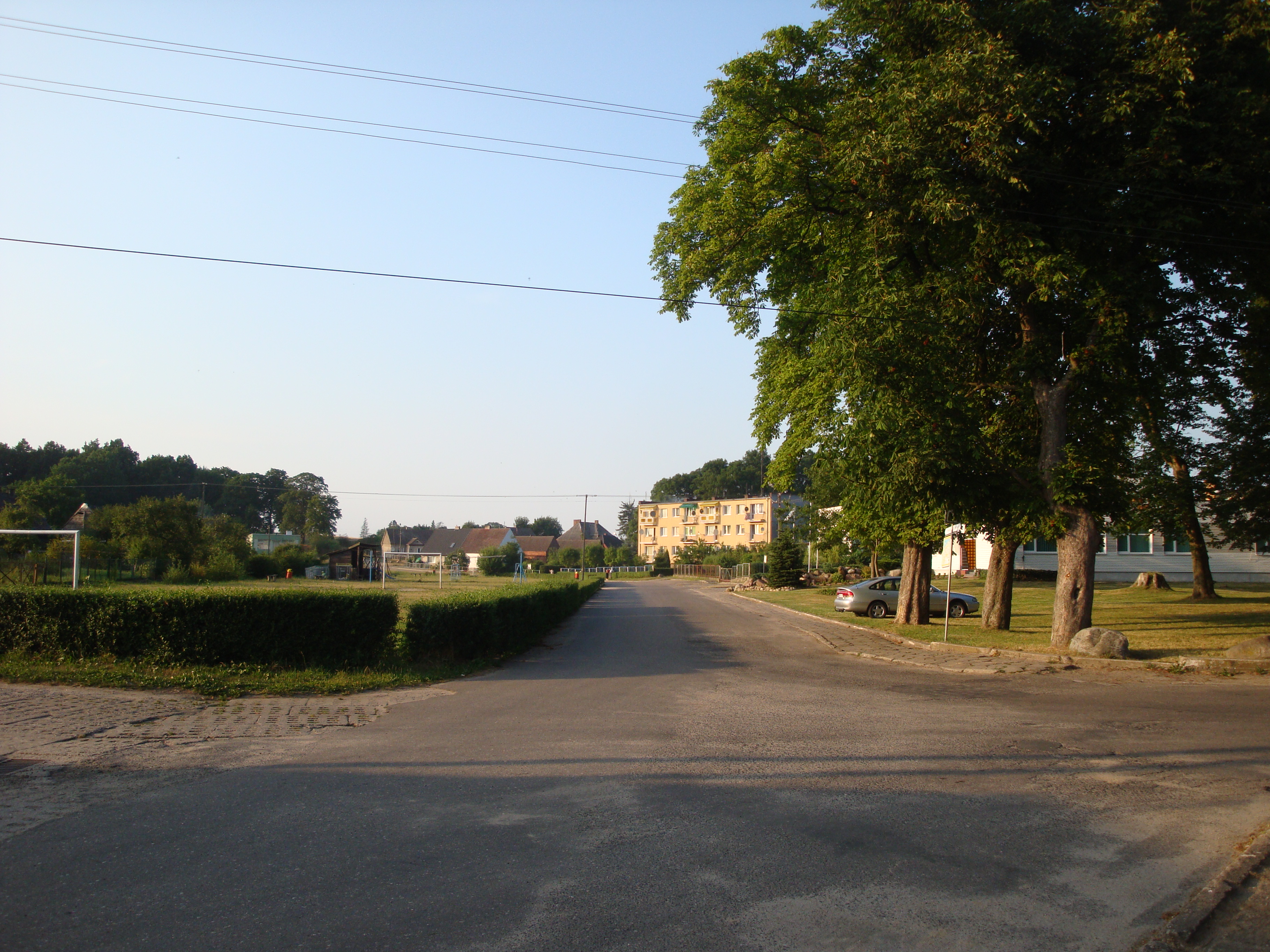 Karżniczka-village in Pomeranian Voivodeship, Poland.